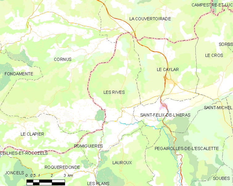 Map commune FR insee code 34230.png - Les Rives